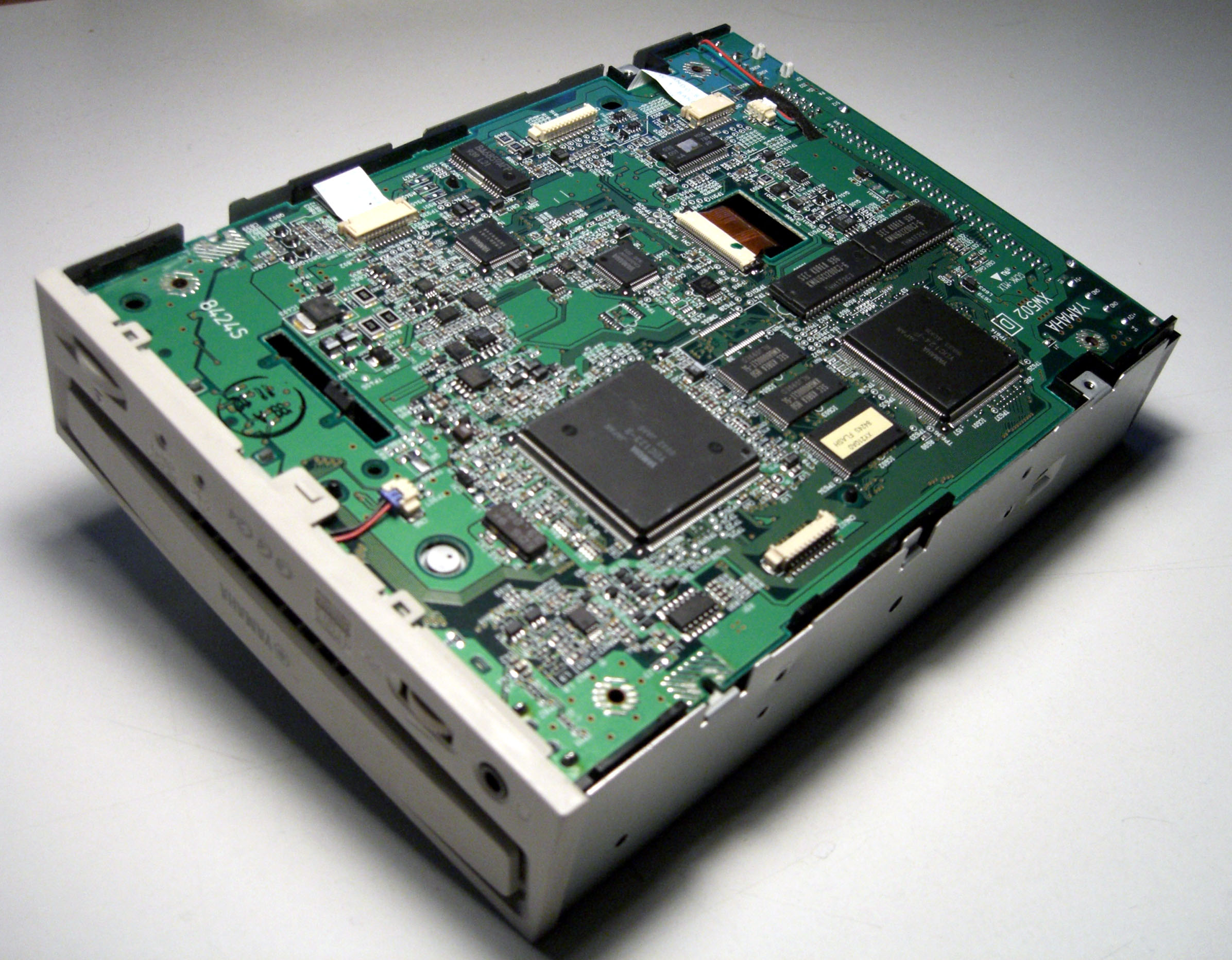 Yamaha SCSI CD Writer.